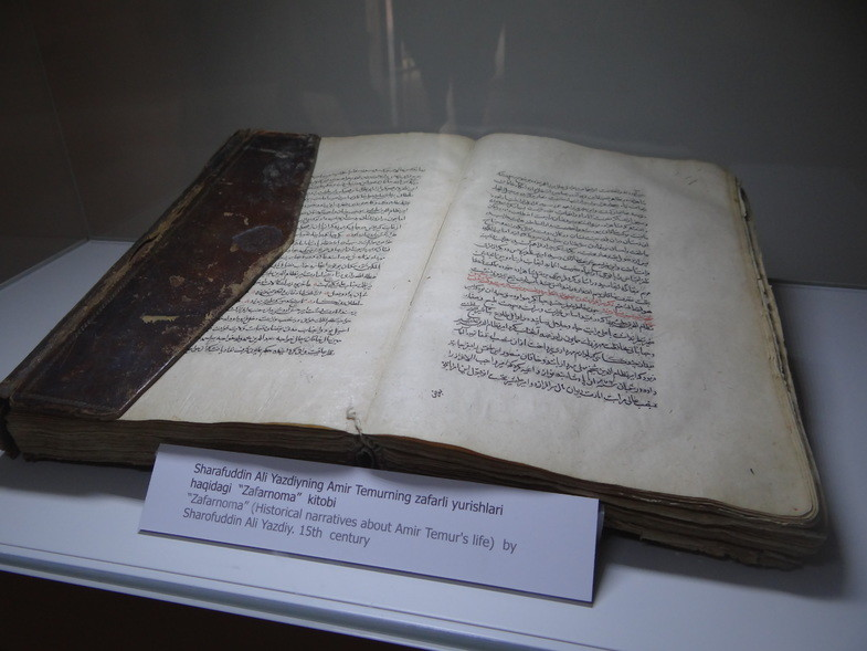 "Zafarnoma" (historical narratives about Amir Temur's life) by Sharofuddin Ali Yazdiy, 15th century